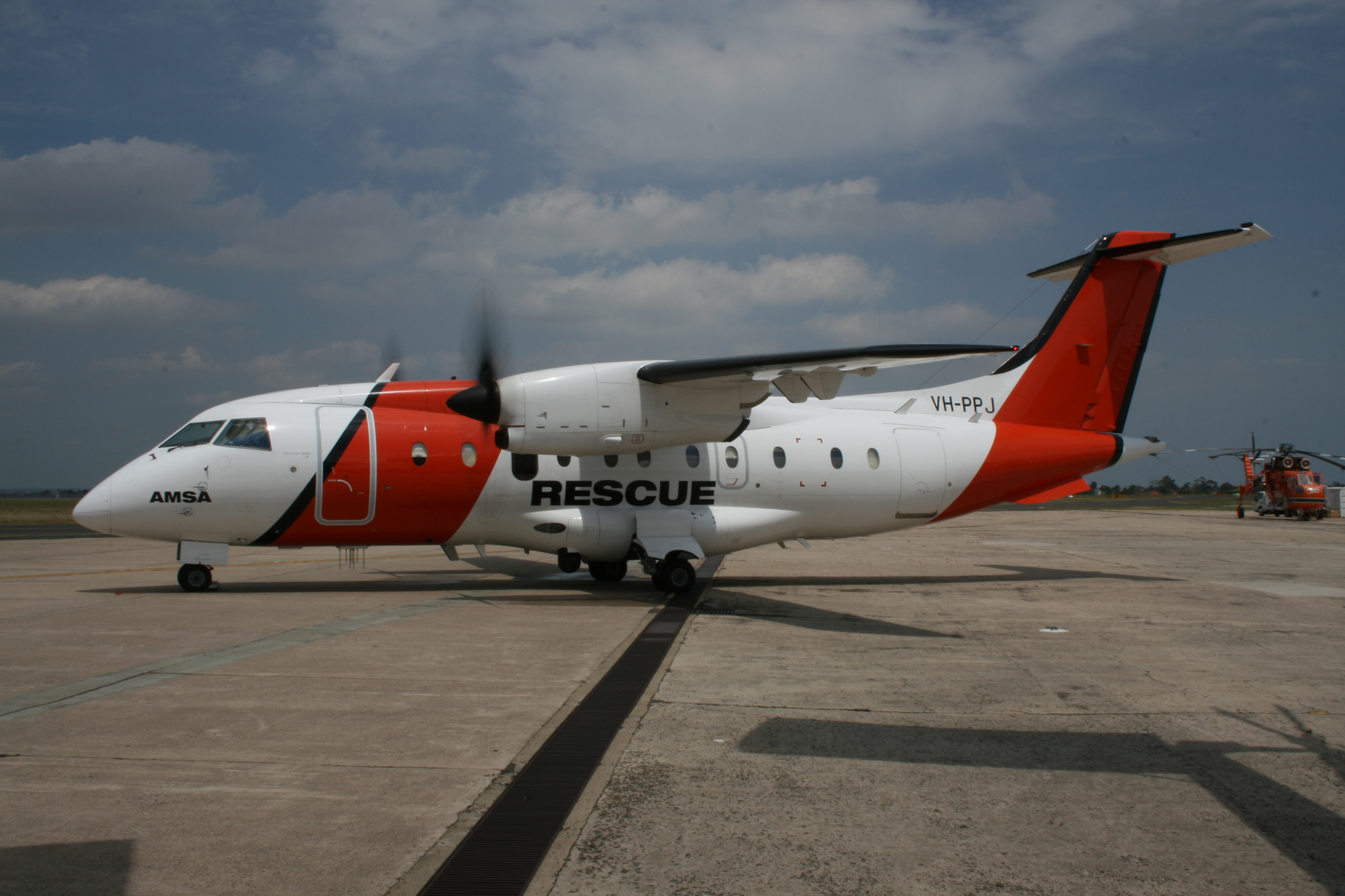 This Pearl Aviation Dornier 328 is operated by associate company Aero Rescue on behalf of the Australian Maritime Safety Authority.